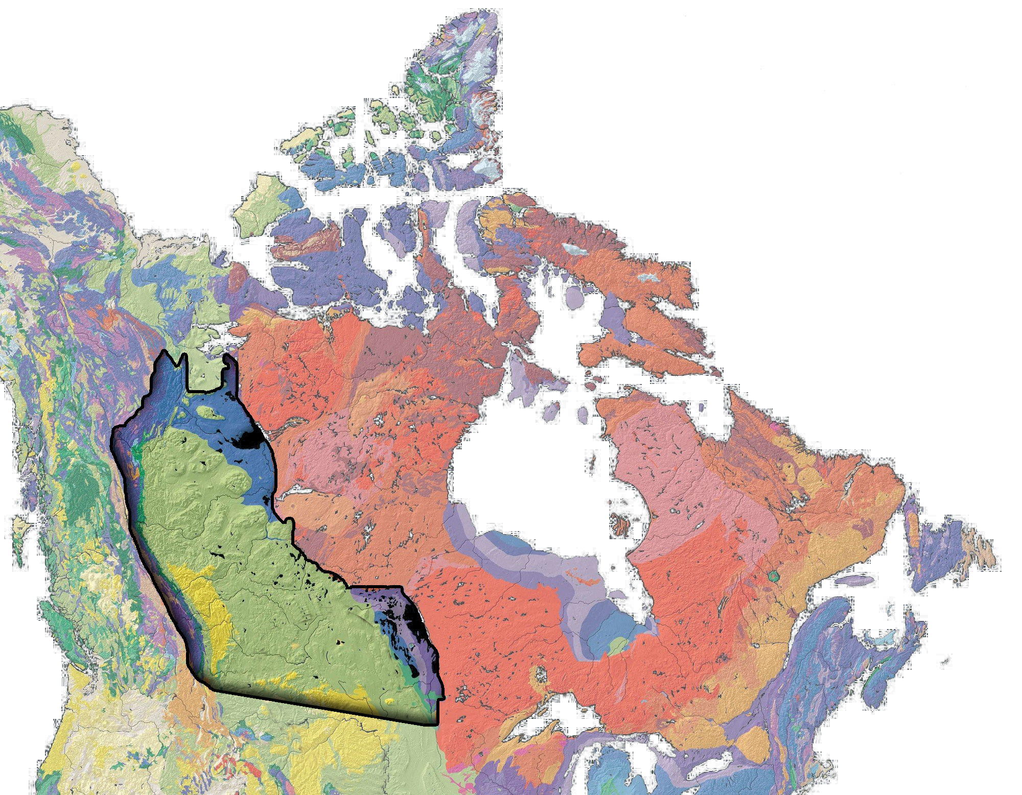 geological map of Canada with Western Canadian Sedimentary Basin highlighted